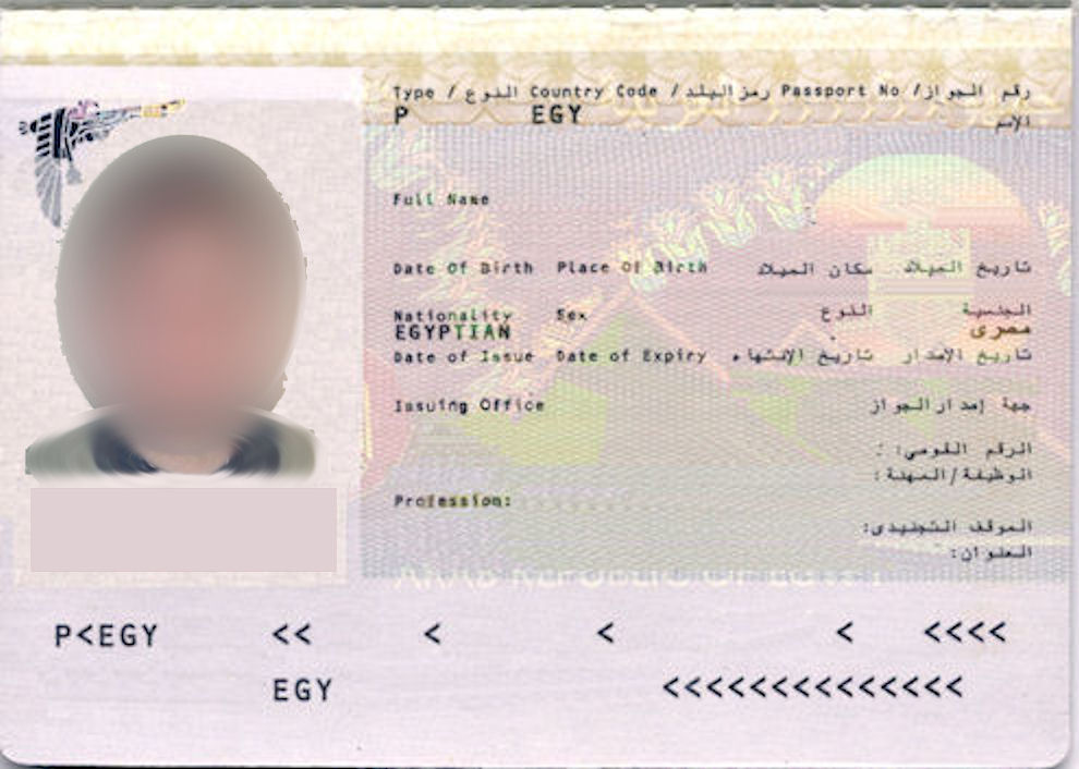 Egyptian Passport Bio Page